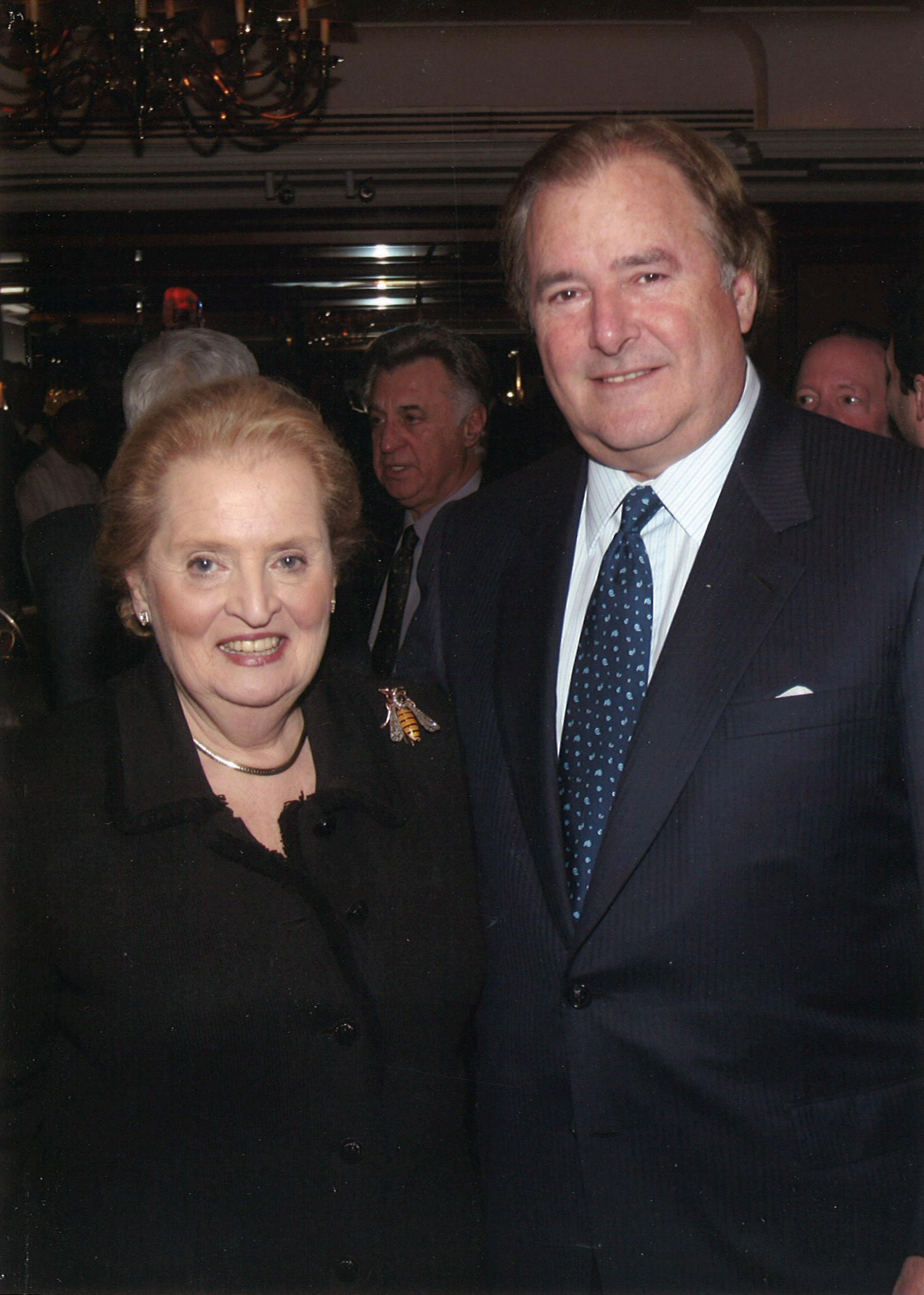 Gary Winnick and Madeleine Albright